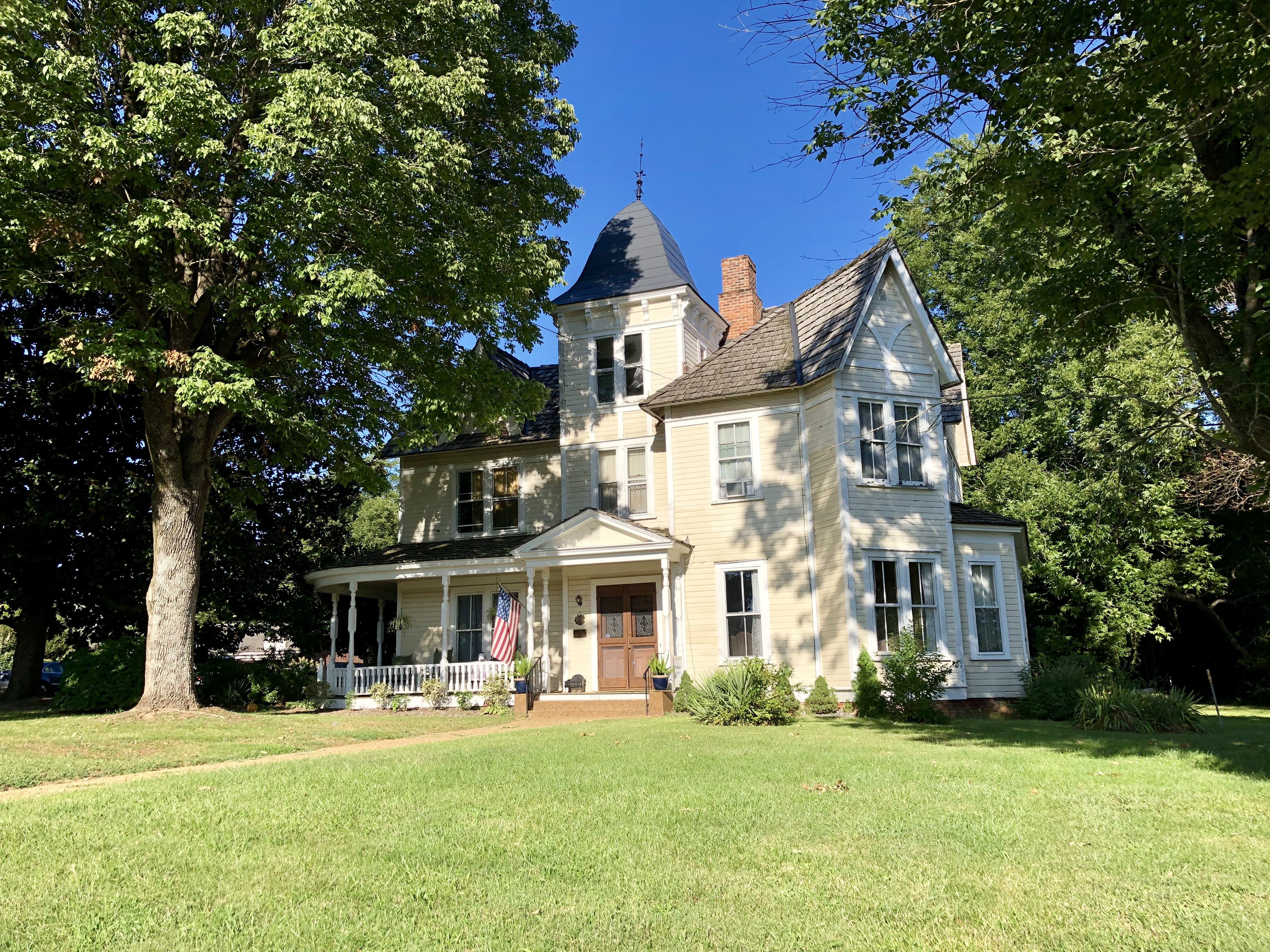 This house at Lenoir Street and Short Street in Morganton, North Carolina is a contributing structure in the Avery Avenue Historic District, listed on the National Register of Historic Places in 1987.